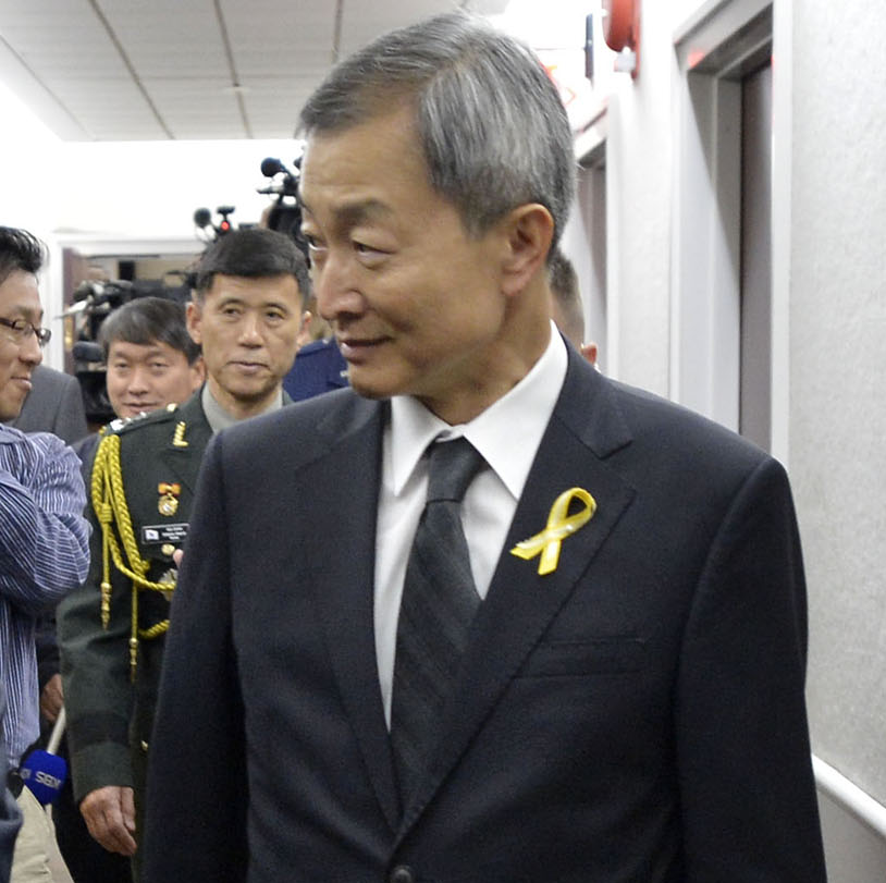 U.S. Defense Secretary Chuck Hagel is escorted by Ahn Ho-young, South Korean ambassador to the United States, as he visits the South Korean Embassy in Washington, D.C., May 10, 2014. Hagel later signed the condolence book in memory of the roughly 270 victims of Korean ferry incident, April 16.